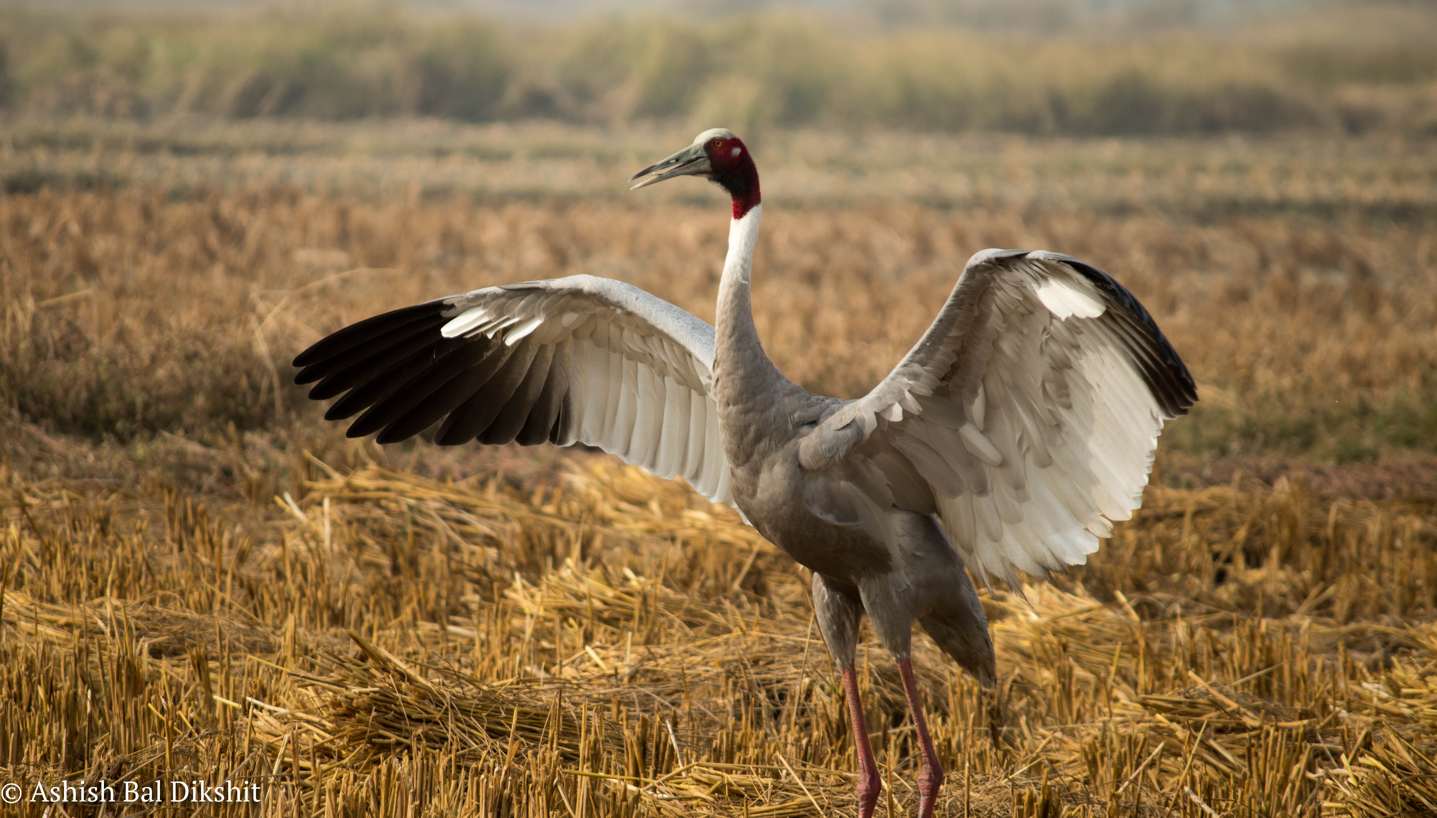 Clicked this picture at Dhanauri Wet Lands, November 2016